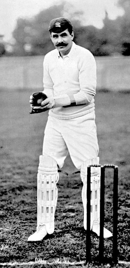 Sport, Cricket, Circa 1900, Gregor MacGregor, Middlesex, (1892-1907) and England, (1890-1893), MacGregor was a wicket-keeper batsman